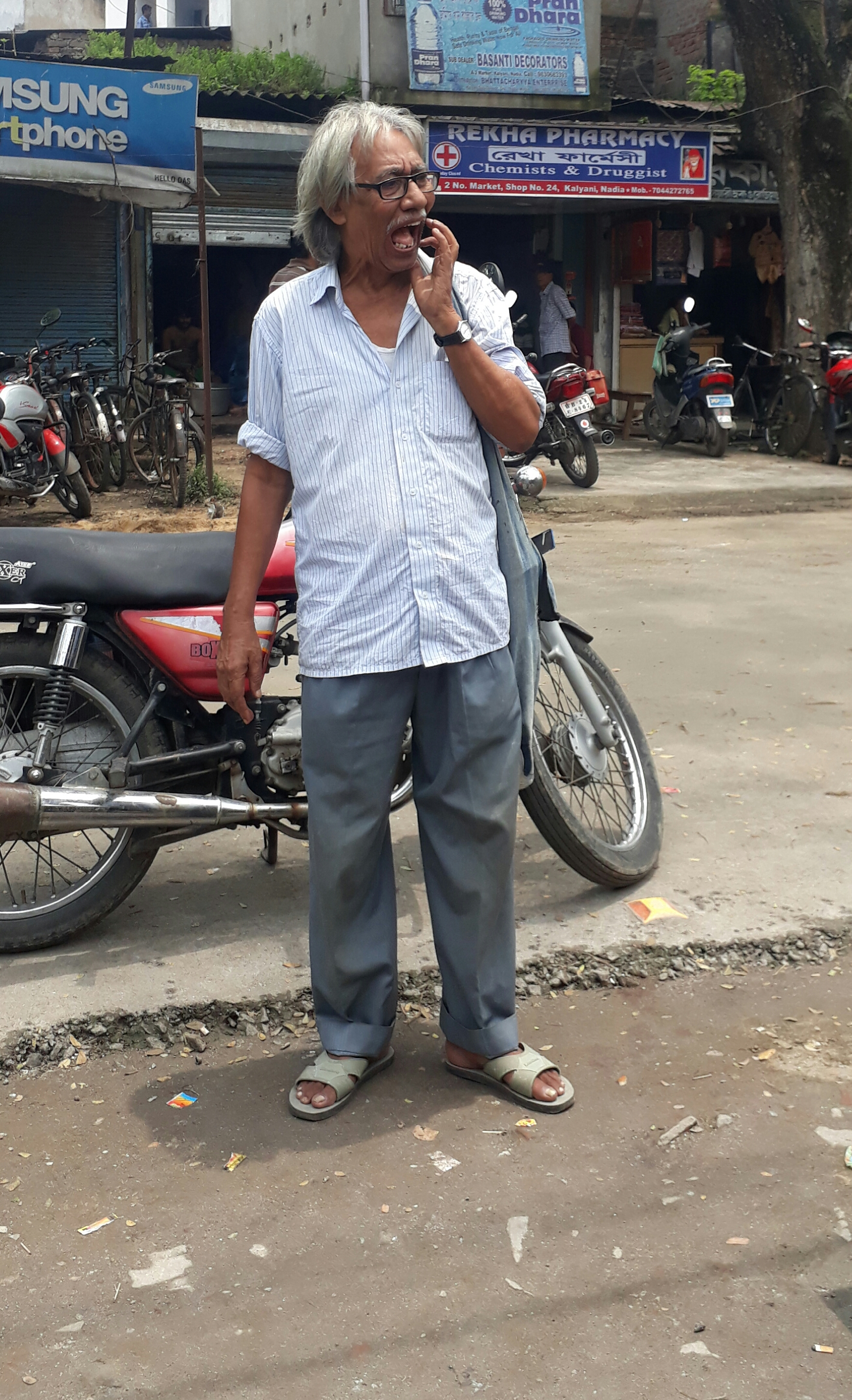 Gaur Chakraborty the Maoist Spokesperson in a street corner